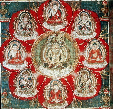 Buddhas and bodhisattvas in the center of a Womb Realm mandala. Heian period (794-1185), Tō-ji, Kyōto, Japan. National Treasure.